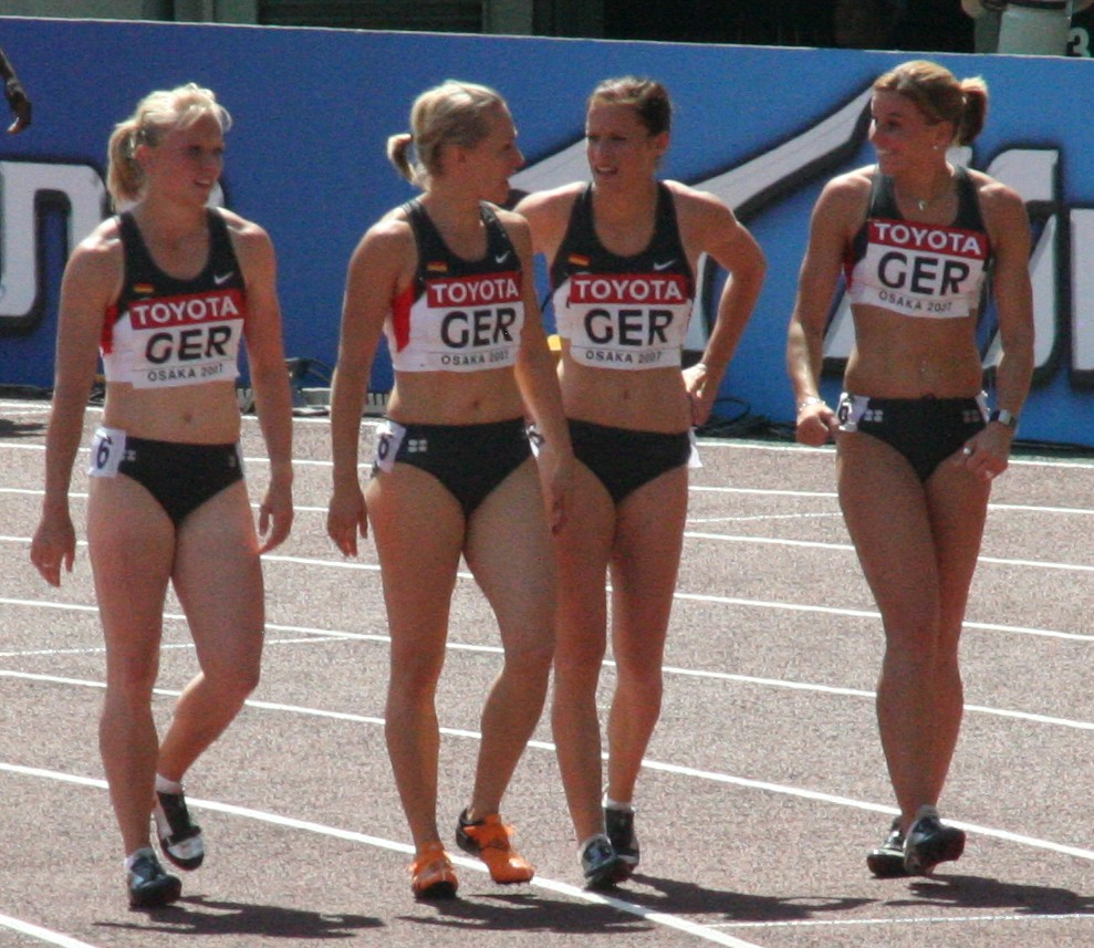 Katja Wakan, Cathleen Tschirch, Verena Sailer, Johanna Kedzierski - World Athletics Championships 2007 in Osaka - German women's 4*100 metres relay team after qualifying for the final.